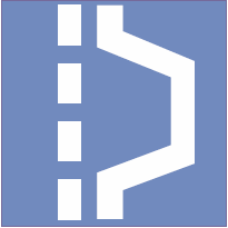 Diagram of road signs of Luxembourg